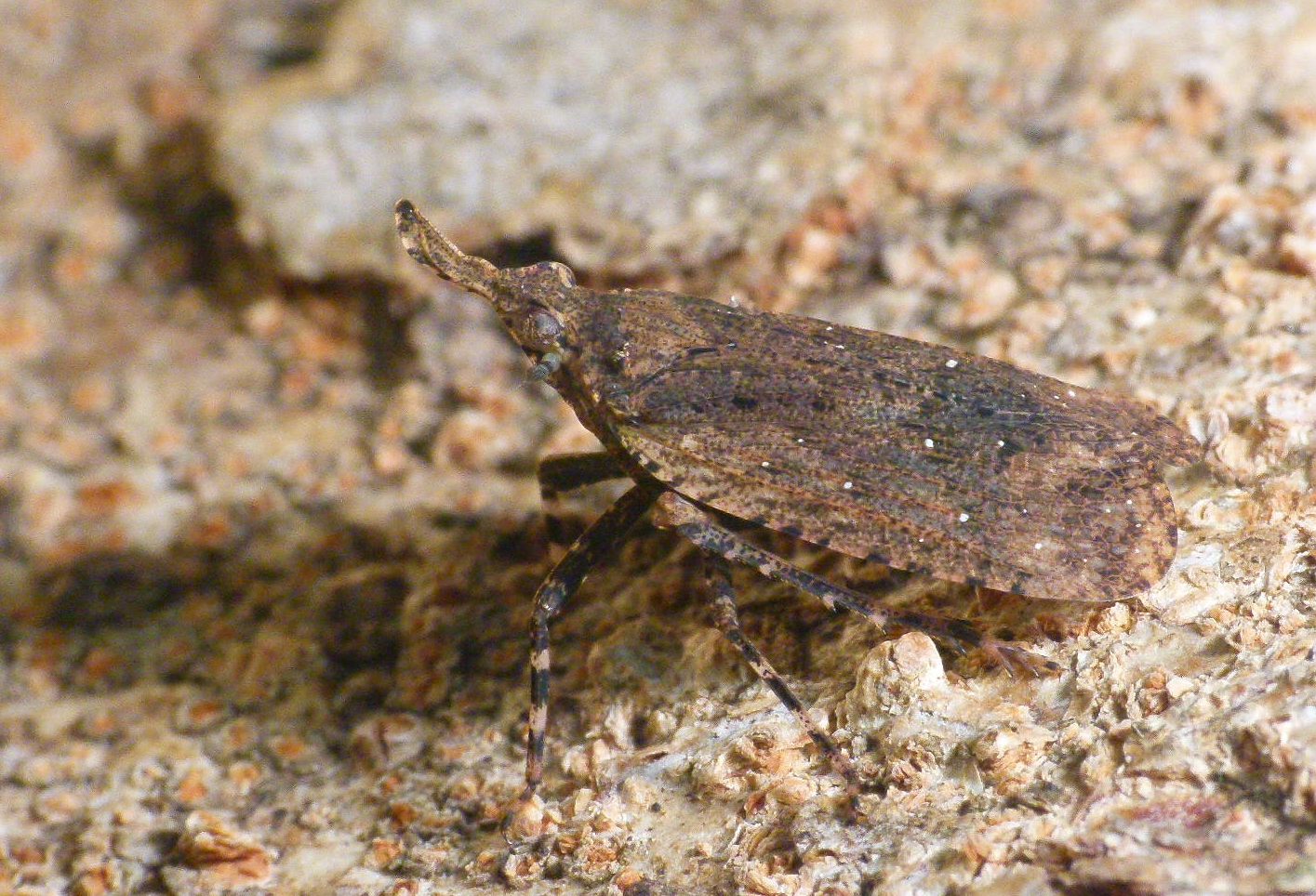 Alcathous fecialis Stål, 1863 - photographed at night in Bandipur, India.